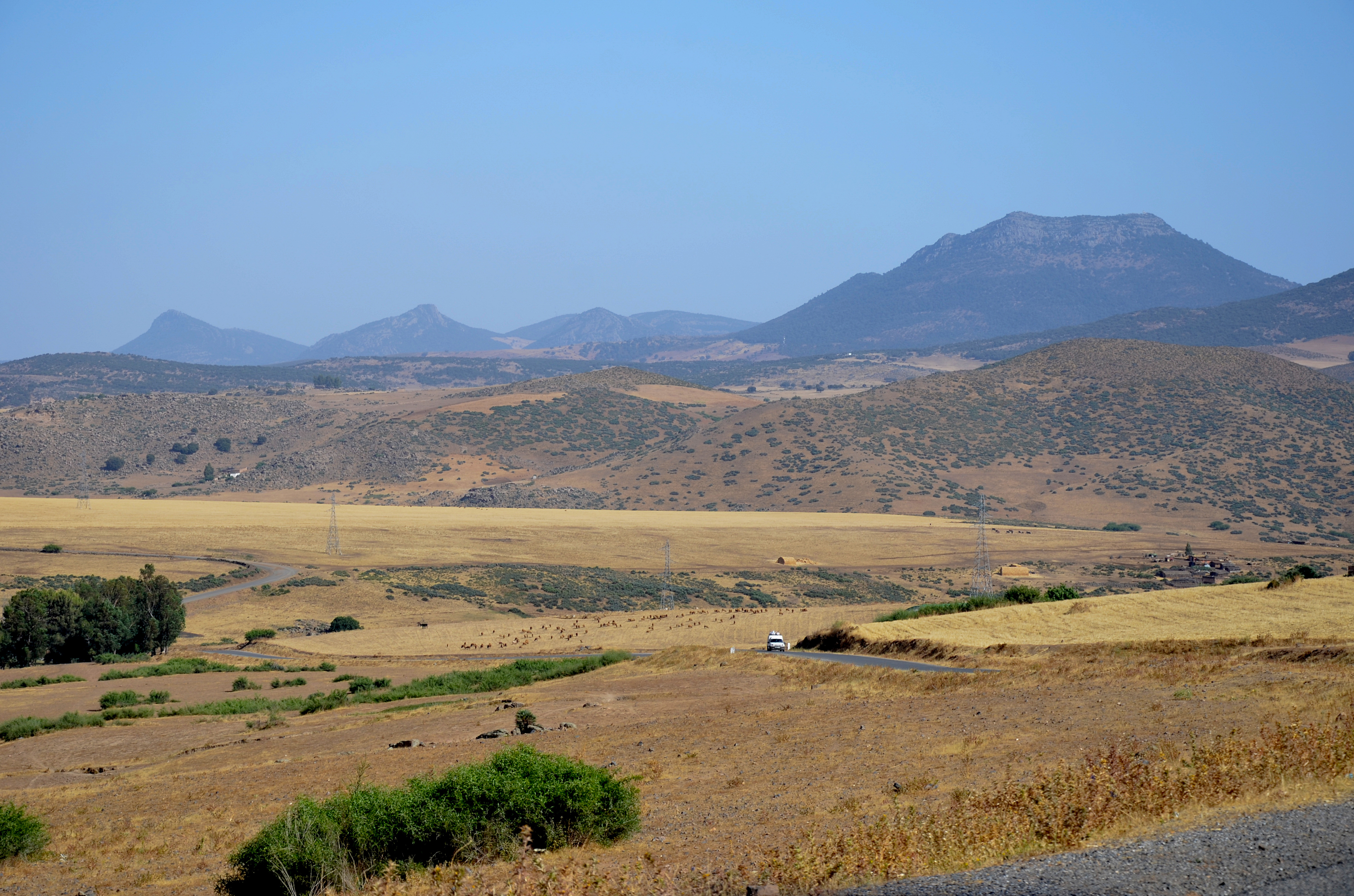 The Moroccan landscape near Khénifra